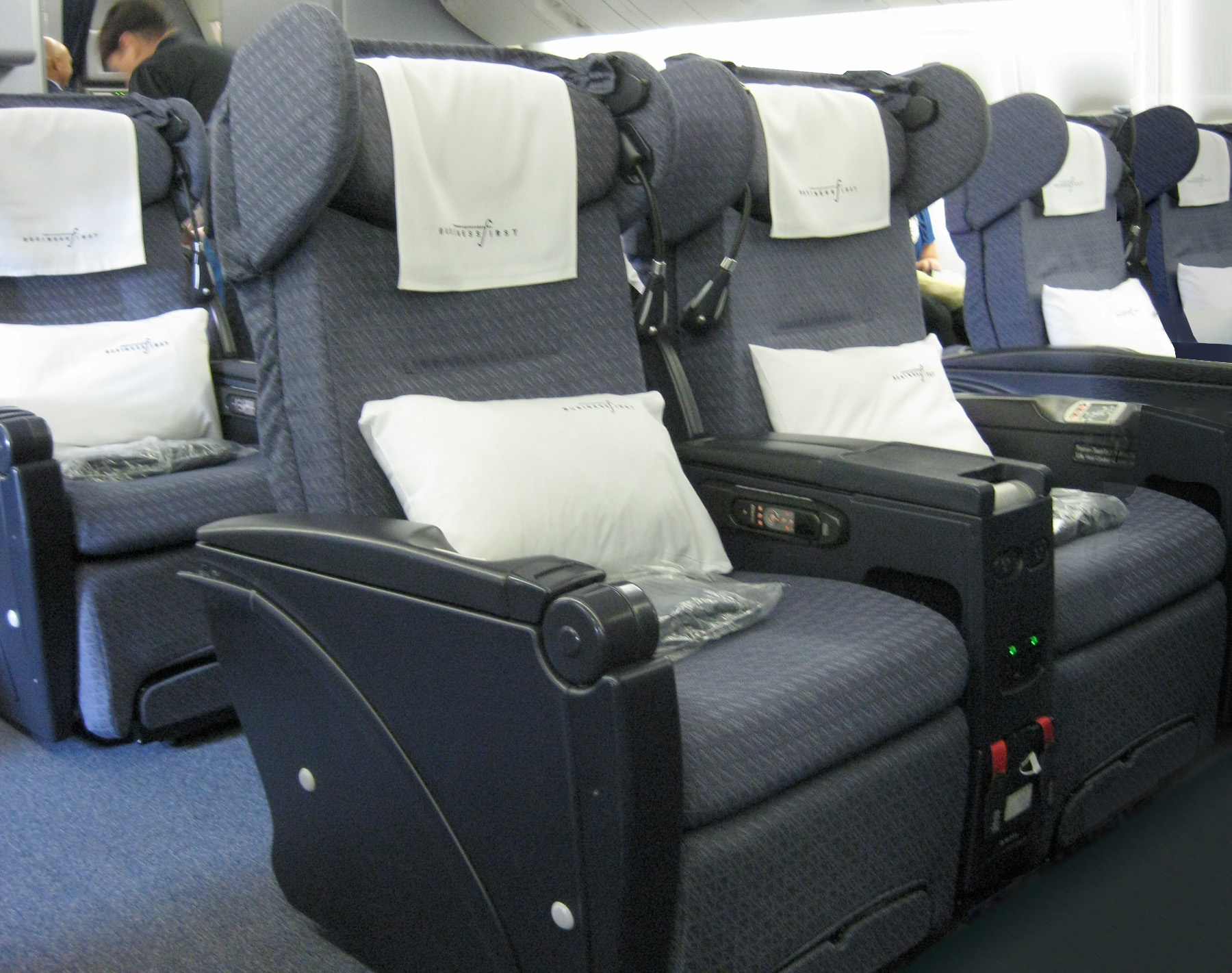 Continental Airlines BusinessFirst